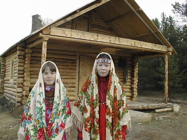 Two Khanty women in Man uskve nomad camp, Berezovsky, Khanty-Mansia, Russia